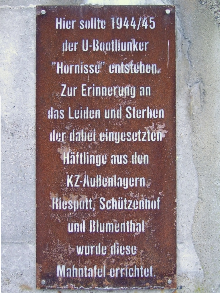 Submarine pen Hornisse, Bremen, Germany